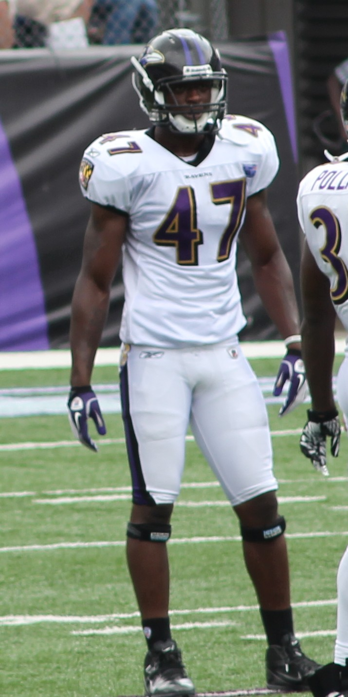 Chavis Williams Practice at M&T Bank Stadium August 2011